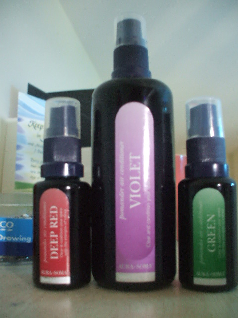 Various pomander air freshener sprays manufactured by Aura-Soma Products LTD.